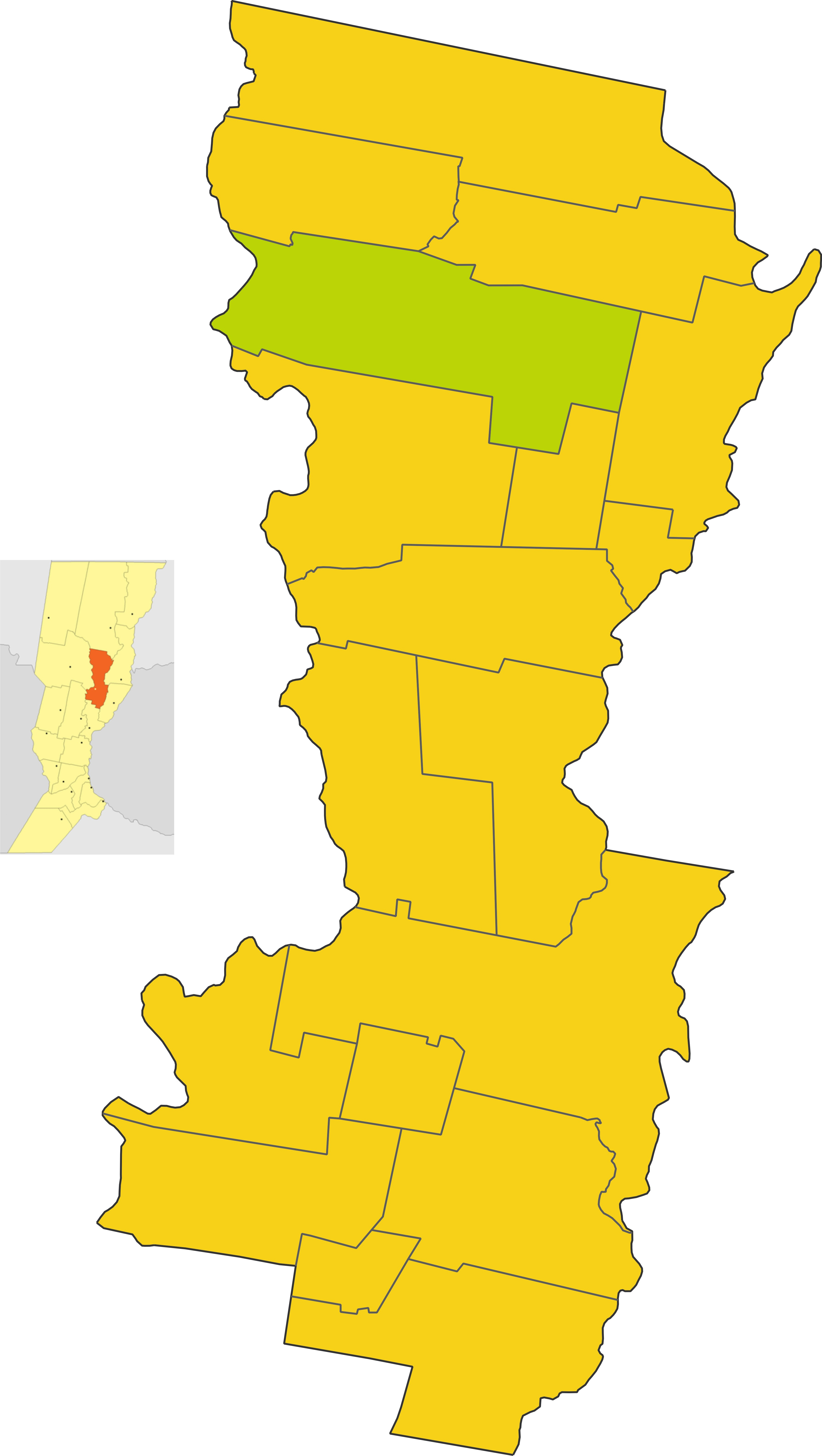 Map of the comuna de La Criolla in San Justo department, Santa Fe, Argentina